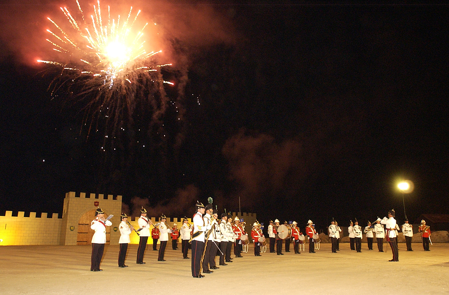 Minden Band photograper, Dhekelia, Cyprus 2002. Director of Music Capt. Tim Arnold. Pipers from the R Irish Regiment, and Royal Anglian Regiment Corps of Drums.